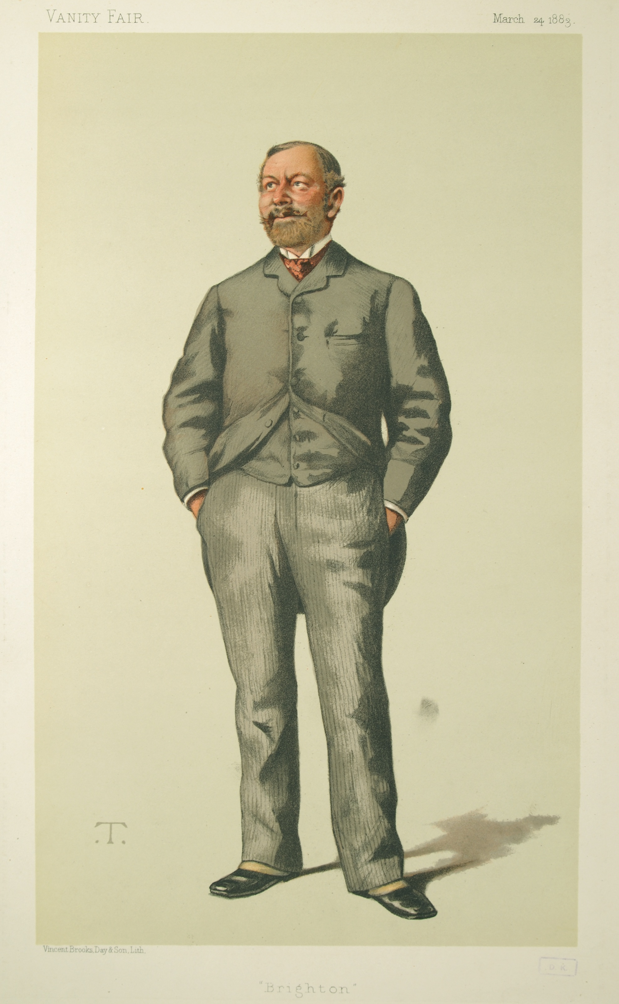 Statesmen No.420: Caricature of Mr William Thackeray Marriott MP QC. Caption reads: "Brighton"